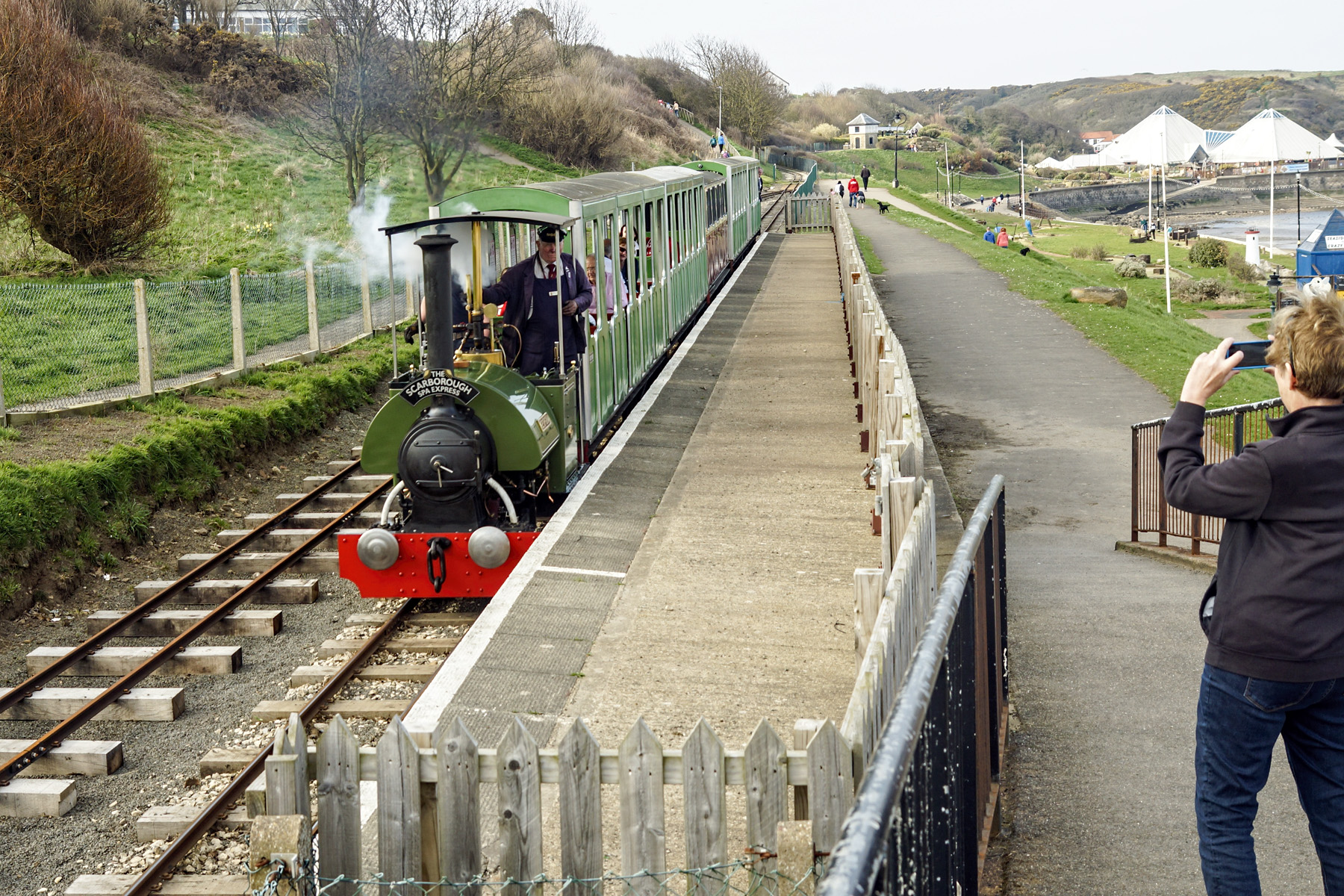 Steaming through the now closed Beach Station, 0-4-0ST Georgina heads for Peasholm with the penultimate service of the day. Sally is caught snapping it also in the right; I knew I could convert her one day!!